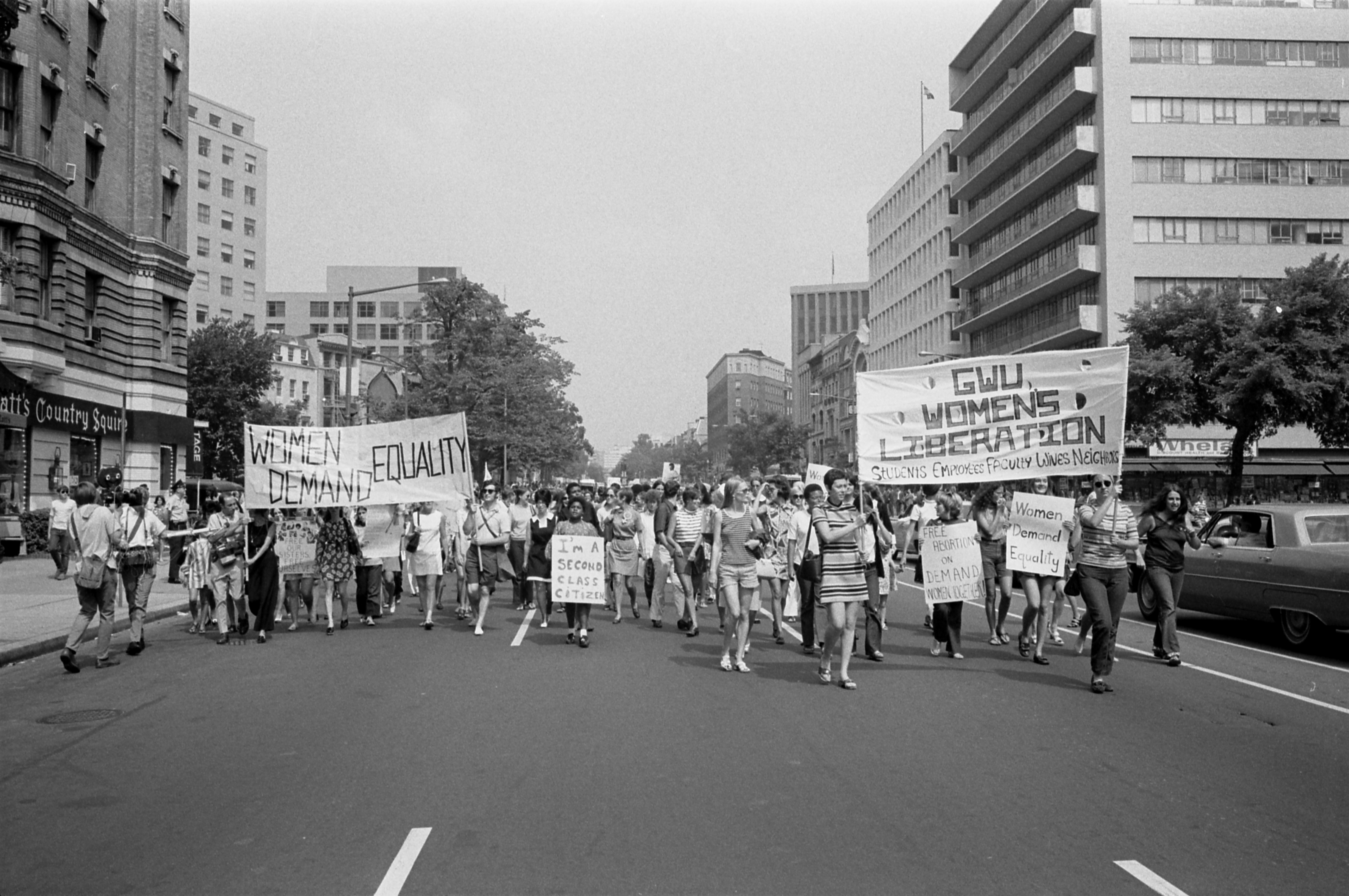 Women's lib[eration] march from Farrugut Sq[uare] to Layfette [i.e., Lafayette] P[ar]k